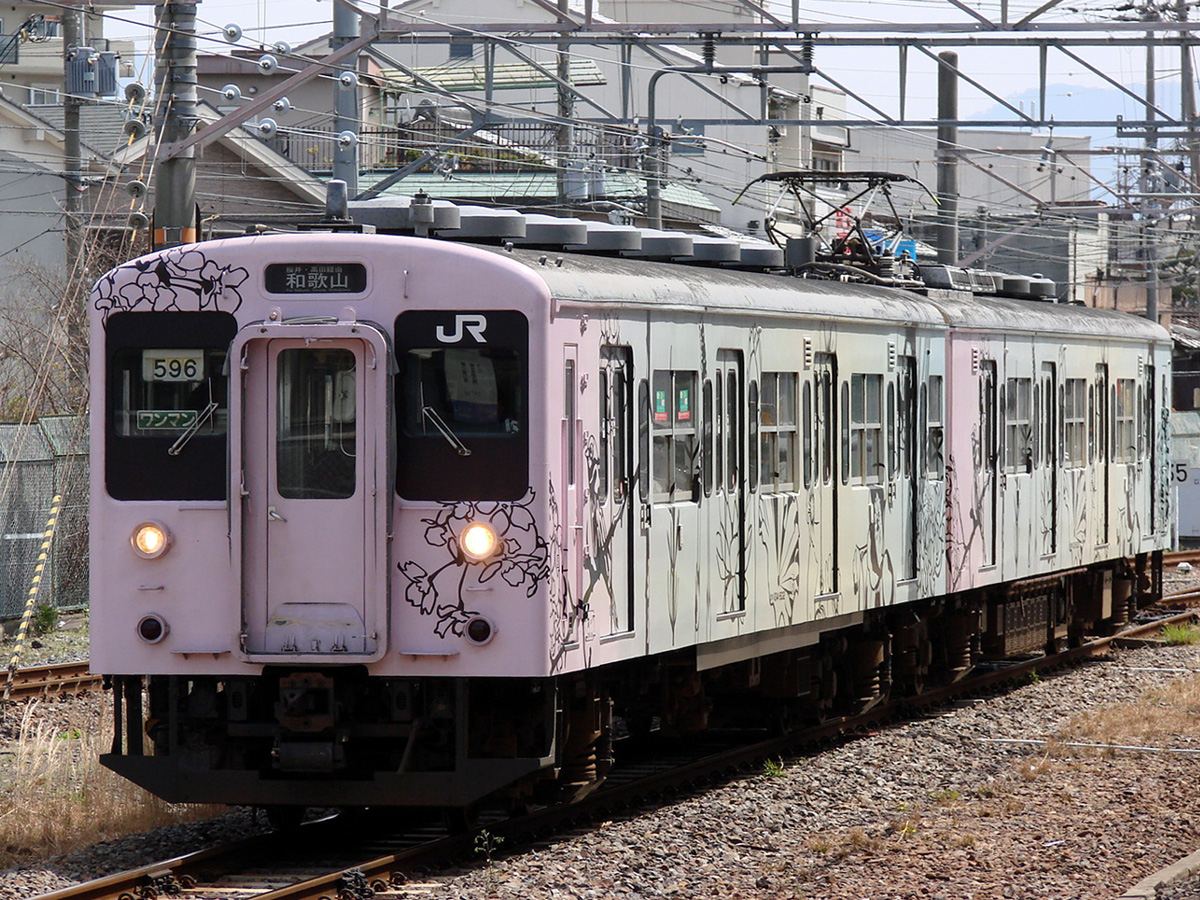 West Japan Railway Series 105 (Man-yō Train 'The four seasons of Man-yō')